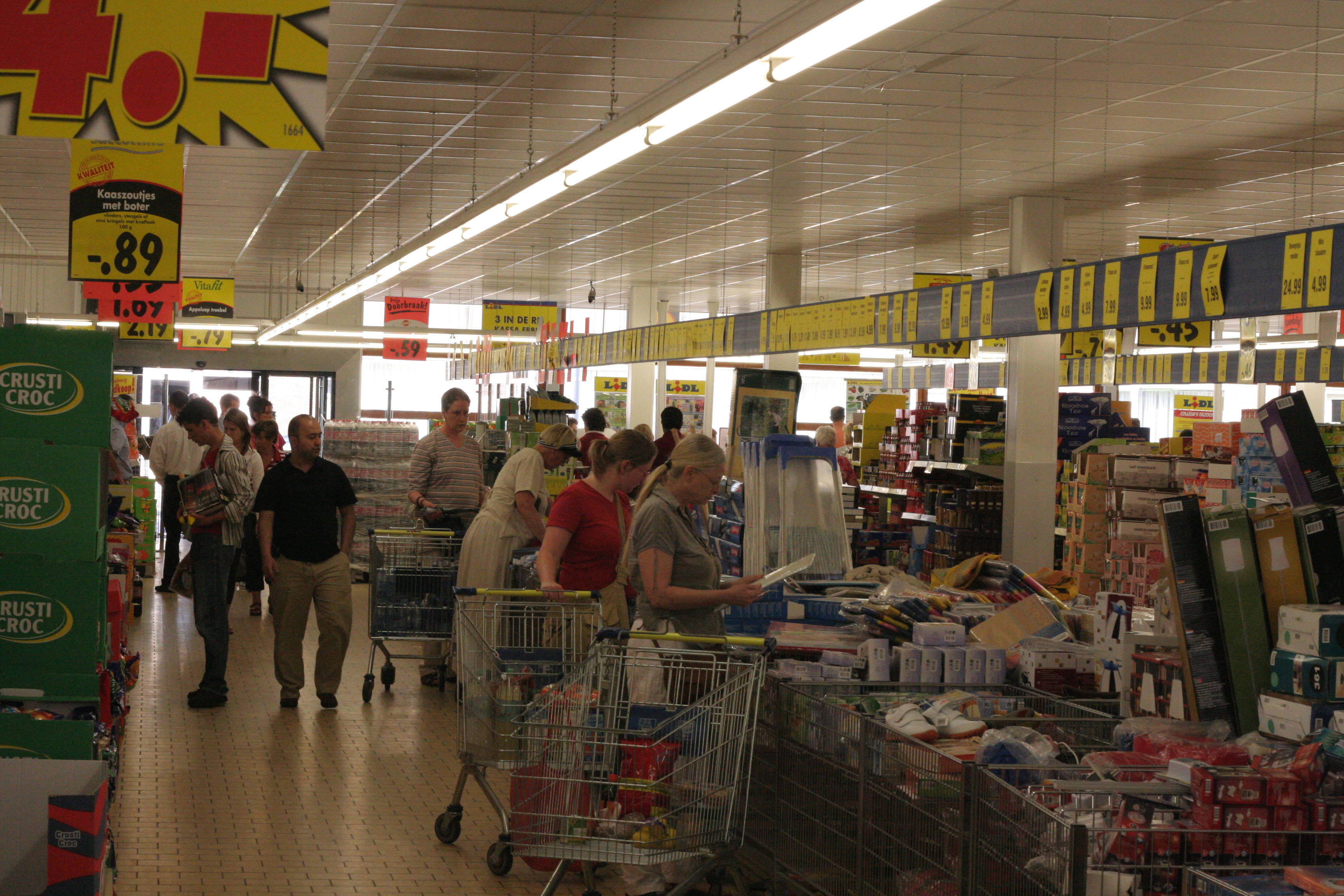 Interior of a Lidl-supermarket in Utrecht, The Netherlands